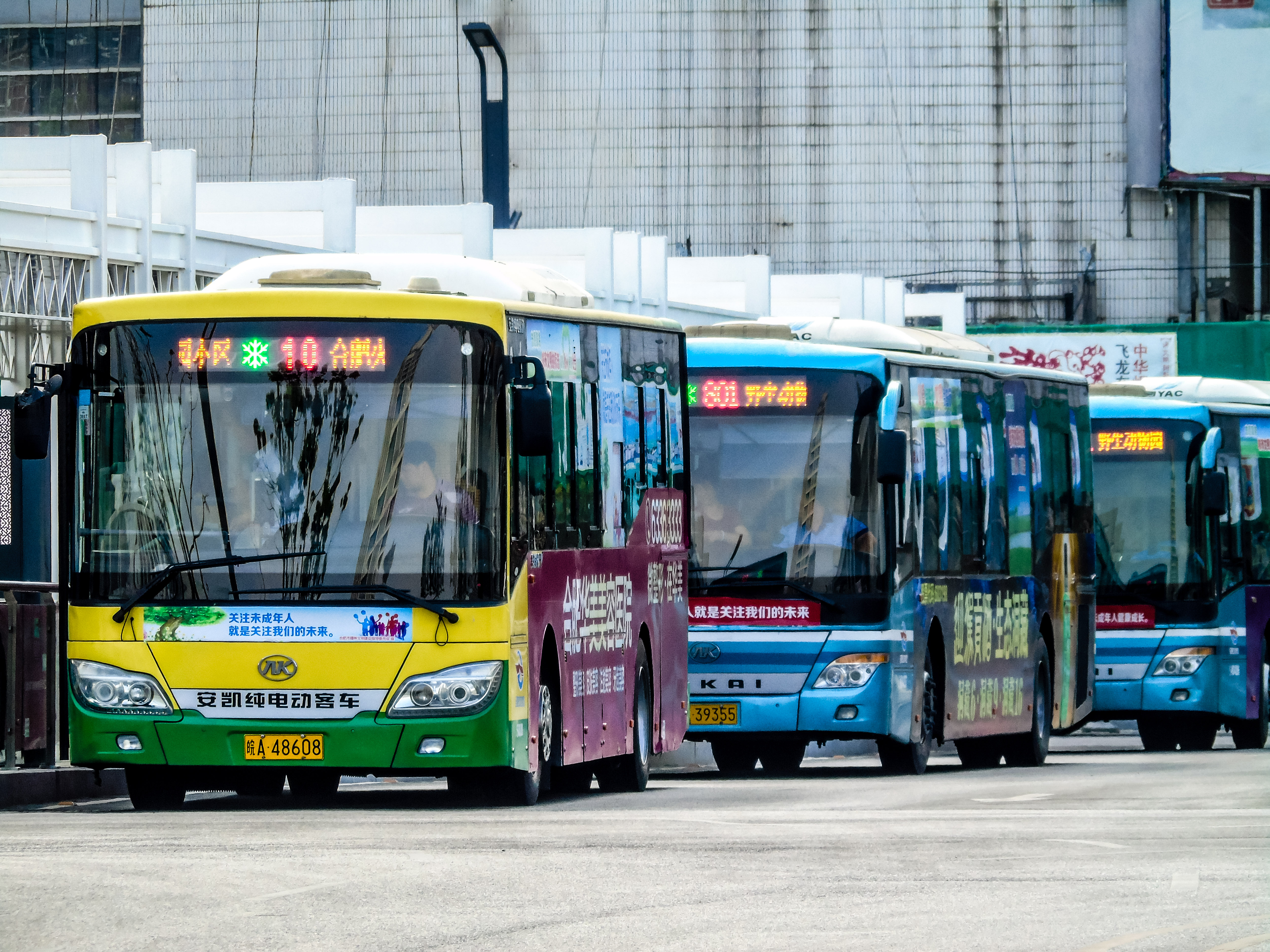 Hefei Bus No.10